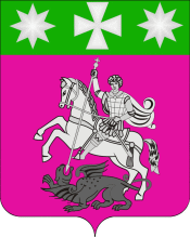 Coat of arms of Irlievskoye, Vyselki Rayon, Krasnodar Kray, Russia